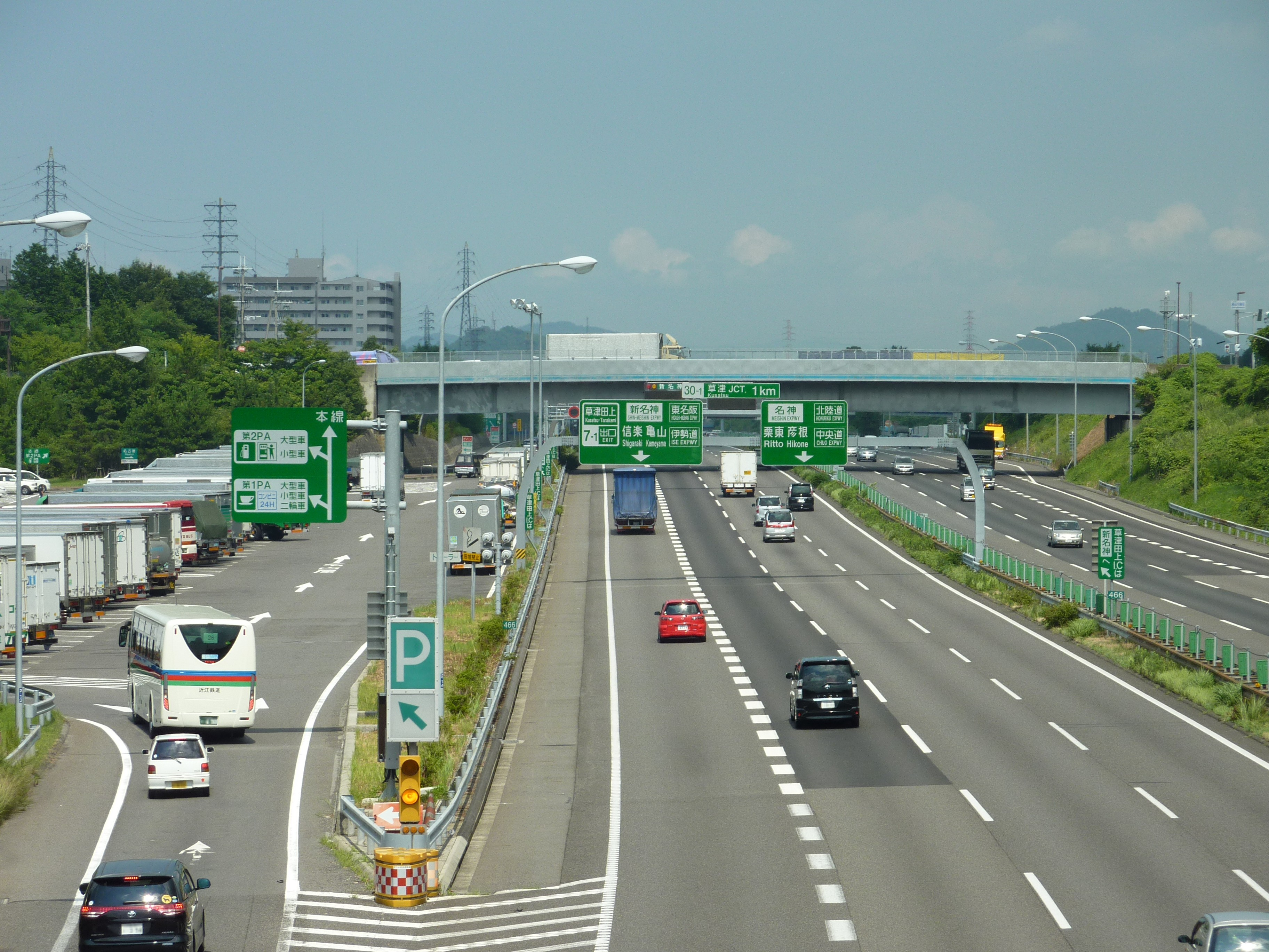 Directional signs for Kusatsu Parking Area and Kusatsu Junction on Meishin Expressway in Otsu City, Shiga Prefecture, Japan